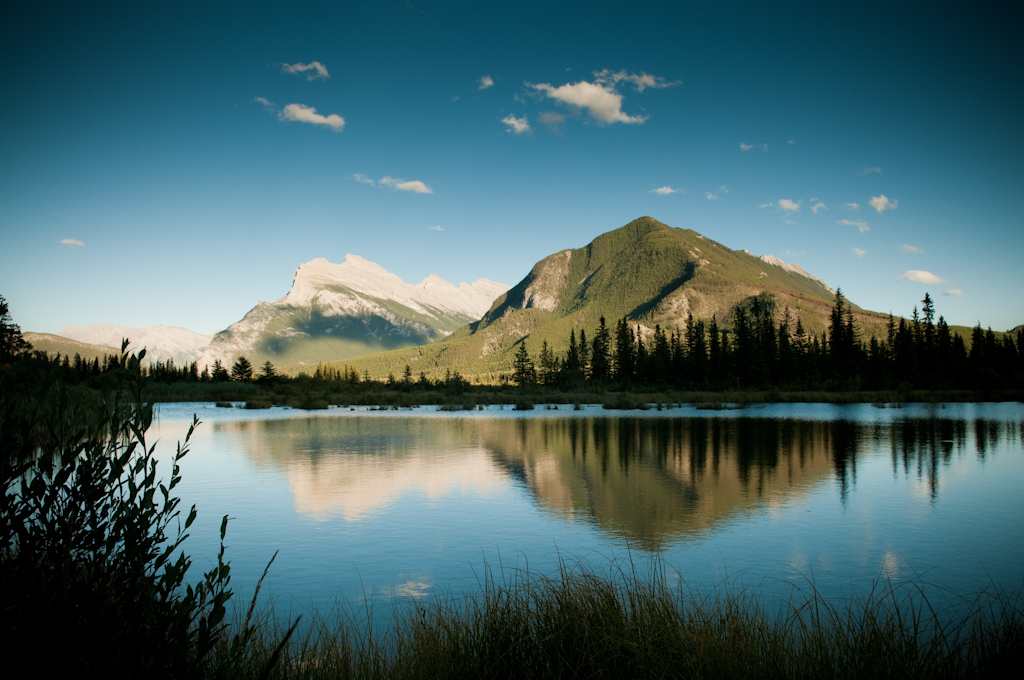 Picture of Vermillion Lakes in Banff, AB